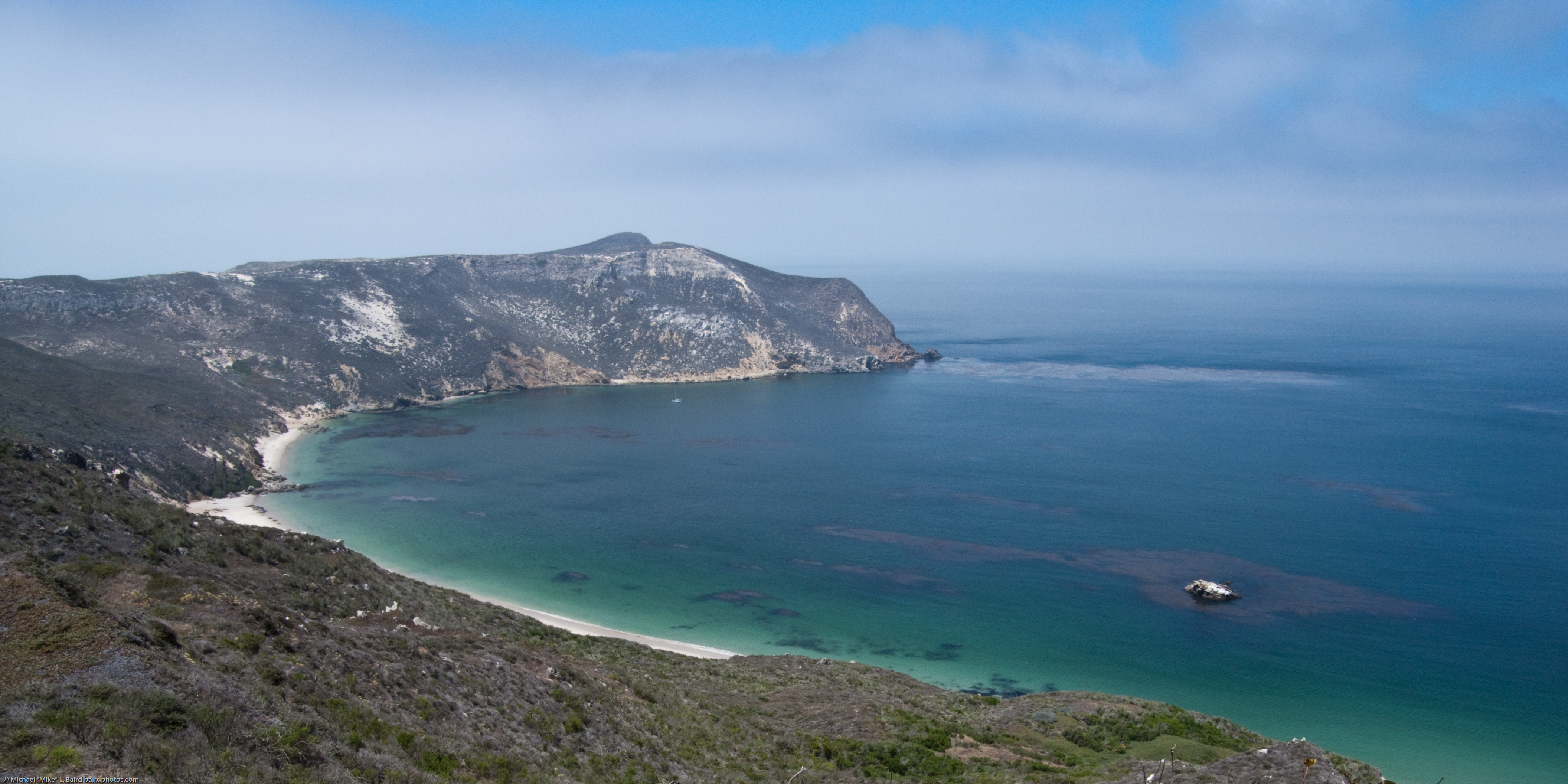 View from San Miguel Island hike.